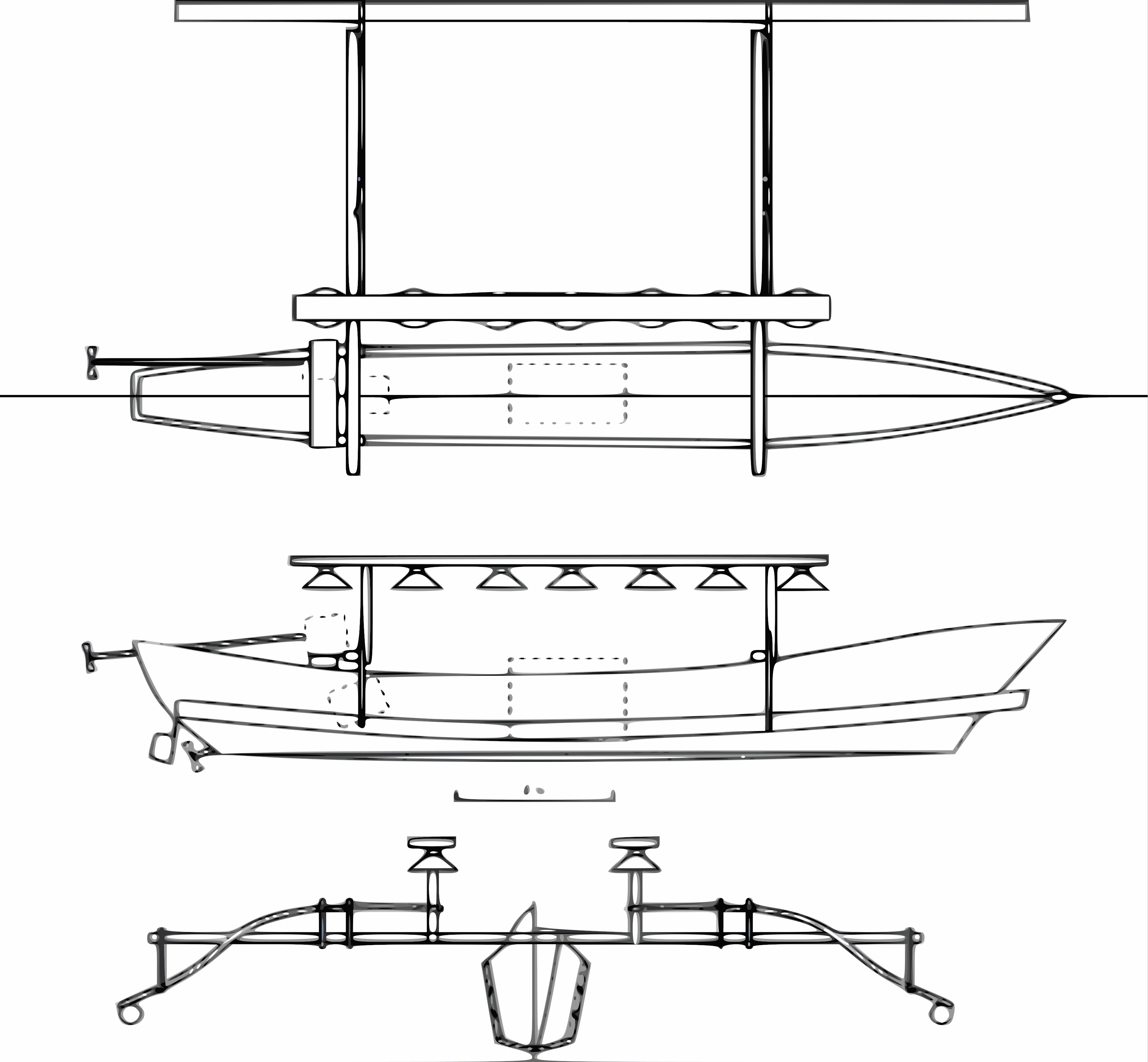 A pelang that has been fitted with lamps and generator for light fishing. This vector image is a reproduction of an image by Aziz Salam